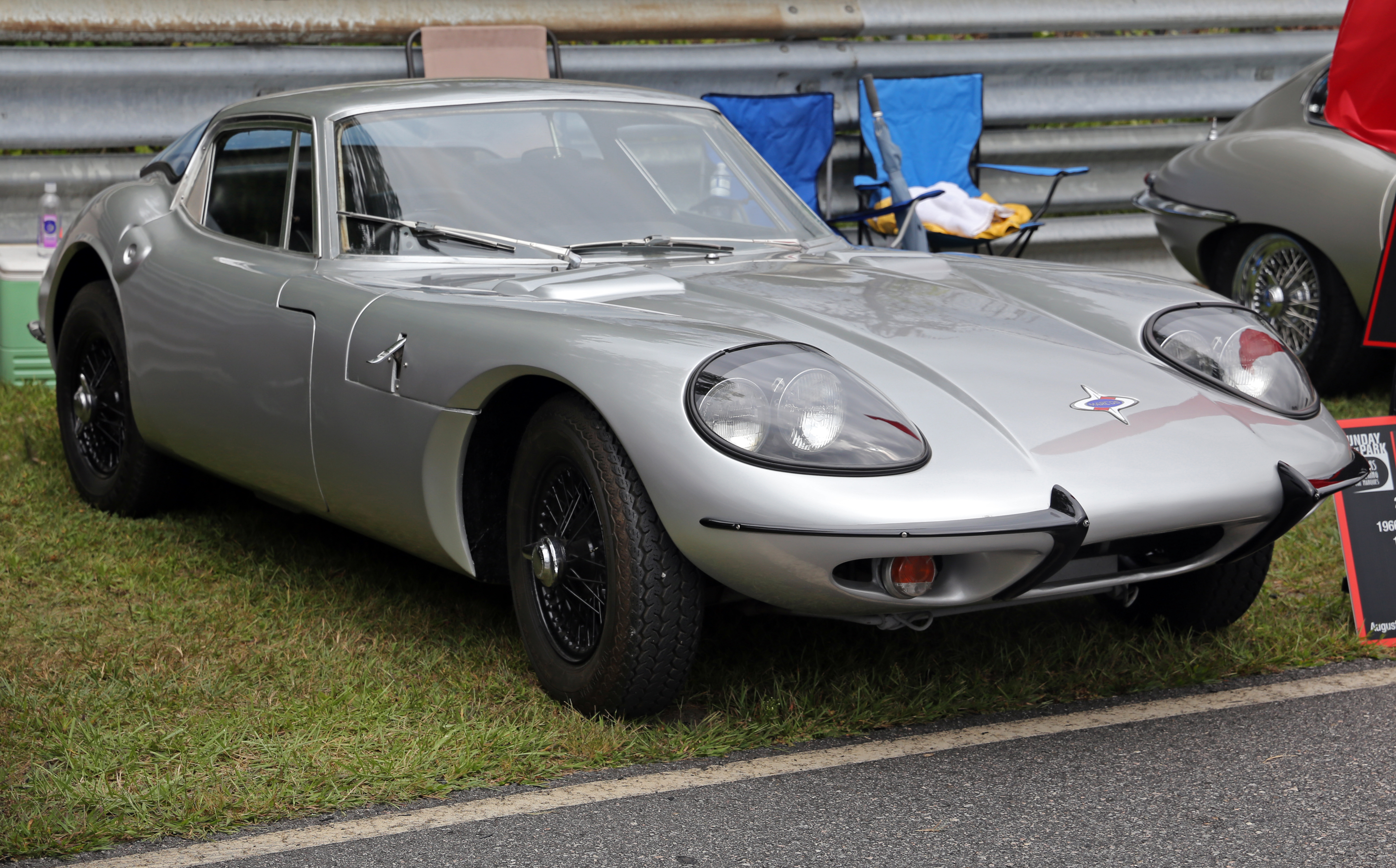 A 1966 Marcos 1500GT at the 2014 Lime Rock Concours d'Élegance. Chassis number 5019. These early Ford-engined Marcoses are rare in unmodified condition.